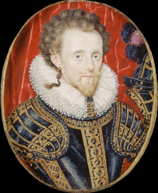 Portrait miniature of William Compton, 1st Earl of Northampton (formerly incorrectly identified as James I of England). Caption from the museum's website This miniature, framed in a black cloisonné enamel locket which would have been worn pinned to the body or on a ribbon at the neck, encapsulates many of the qualities which made the newly-developed art form of the portrait miniature so popular at the Tudor Court. The sitter was for many years identified as James I, but is now known to be William Compton, 1st Earl of Northampton, the owner of the suit of Greenwich armour so vividly depicted here. The armour, with the plumed helm visible to the sitter's right, is a statement as much about Compton's status as about his martial qualities. However, the attention in this small image is focussed not on the expensive armour with its painstakingly-depicted lavish gilt decoration but on the single lovelock suspended from an earring in the sitter's right ear and highlighted against the white pleated ruff on which it rests. The lovelock was a fashionable way to display a lock of hair belonging to a loved one in the late sixteenth century. It reveals that the intention of this miniature was to show the subject not only as knight and lord, but as suitor or lover, and serves as a reminder of the intensely private nature of this art form. The miniature has been ascribed in the past to both Nicholas Hilliard (1547-1619) and his pupil Isaac Oliver (c. 1565?-1617). Although it is undoubtedly of high quality, it appears to be an amalgam of their styles. Other artists named in connection with this miniature more recently are Sir James Palmer (1584-1657) Gentleman of the Bedchamber to James I, and Edward Norgate (1581-1650).